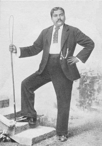 Priyanath Bose (1865 - 1920), the pioneer of Indian circus and the founder of Great Bengal Circus.